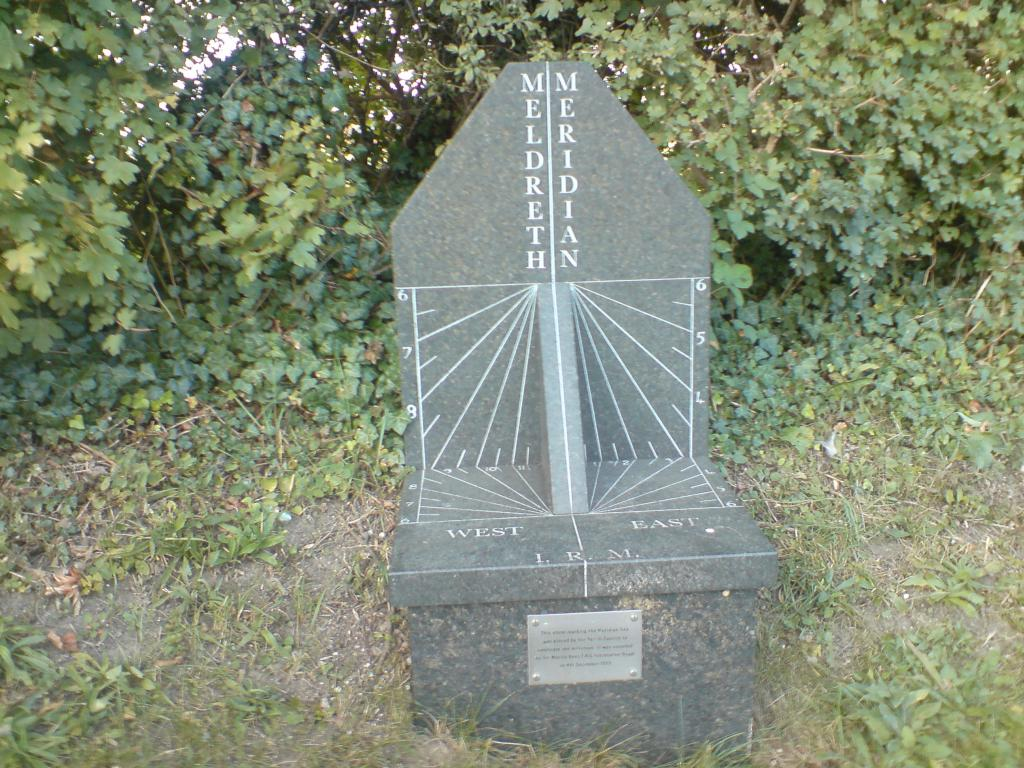 The Prime Meridian marker on Fenny Lane, Meldreth, Cambridgeshire